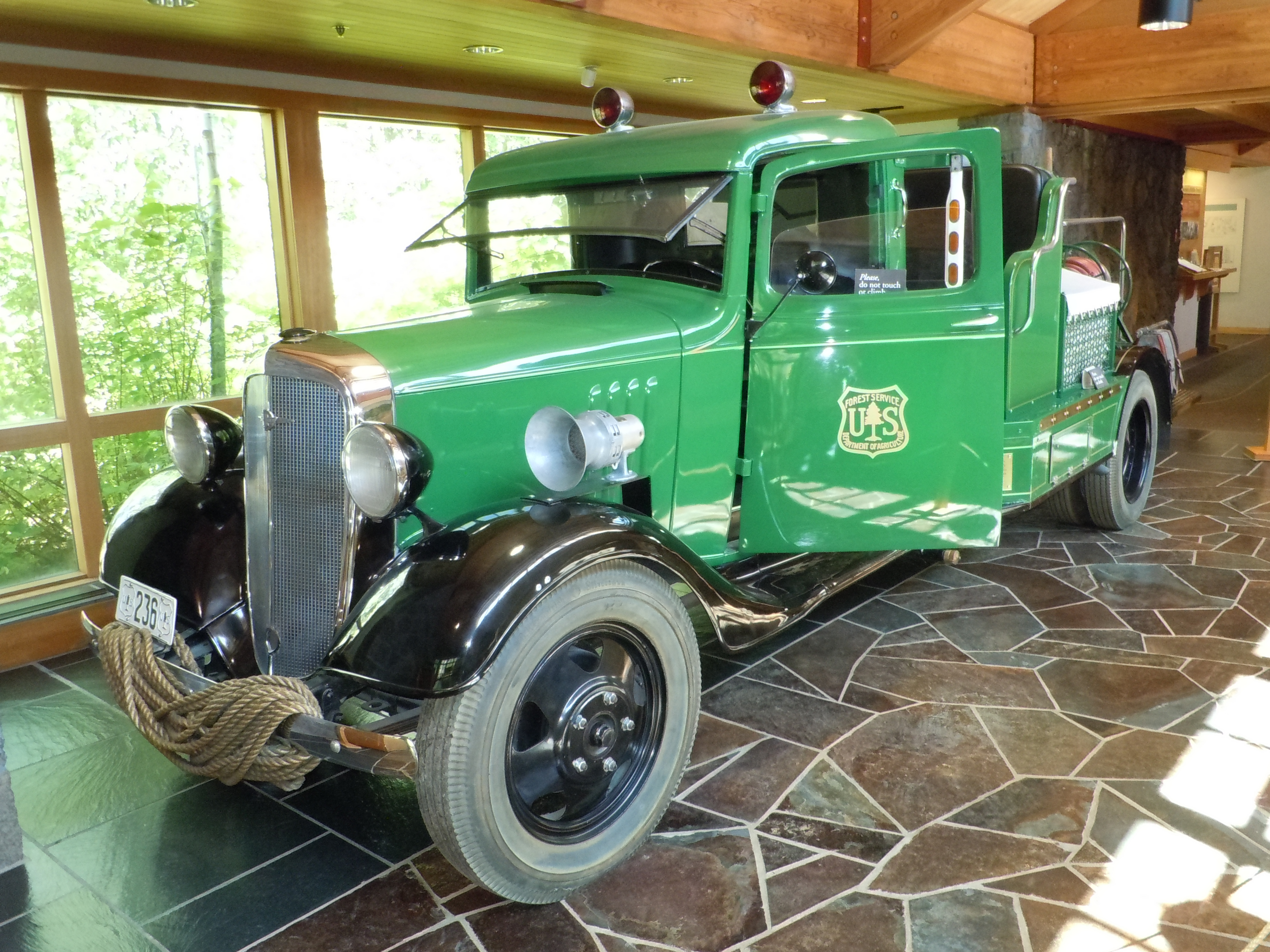 Forest Service Chevrolet fire truck at the High Desert Museum near Bend, Oregon